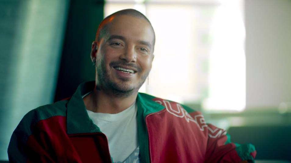 Colombian reggaeton artist J Balvin in a 2018 interview with Jeff Pinilla for Noisey/Vice